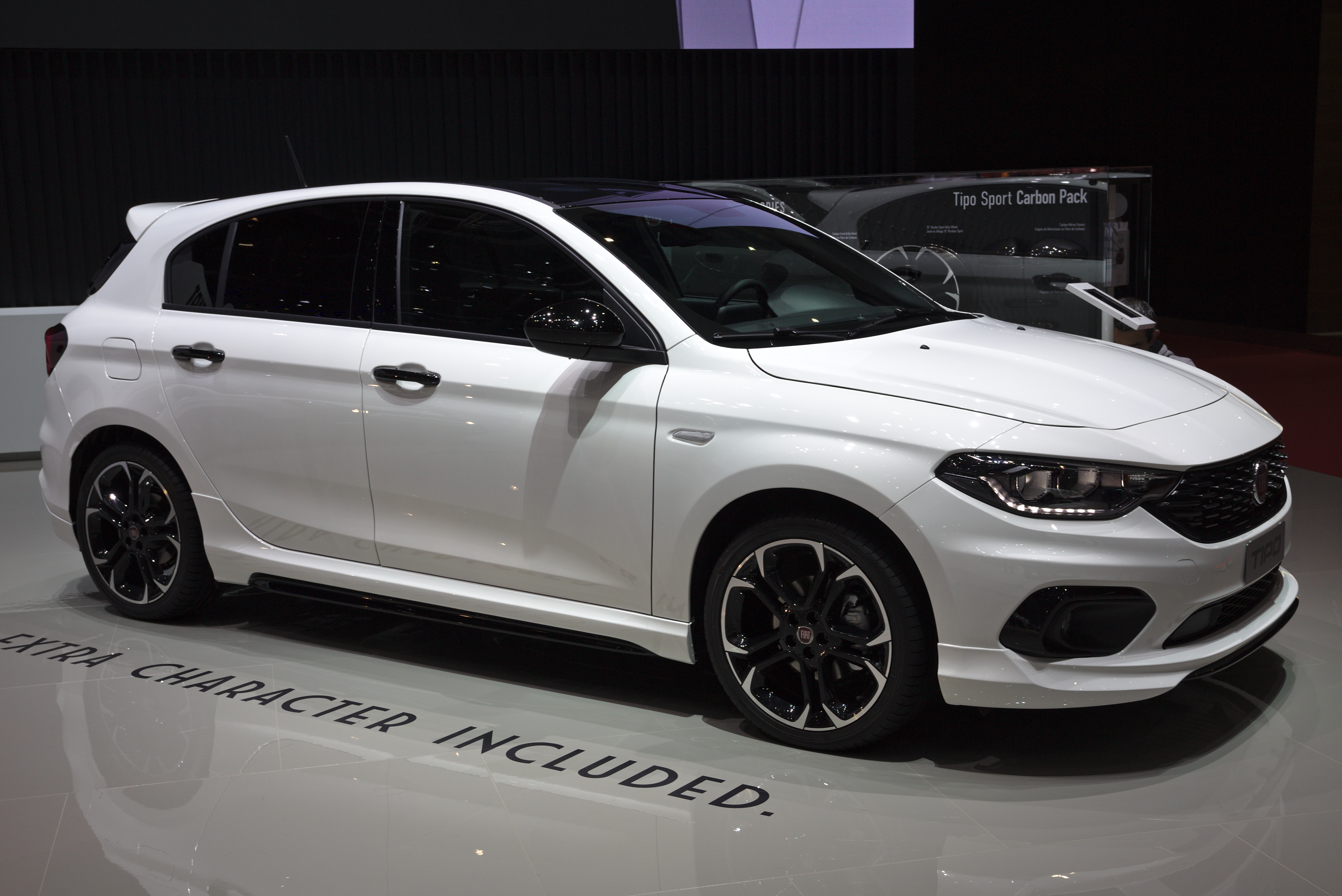 Fiat Tipo Steet at Geneva Motor Show 2019